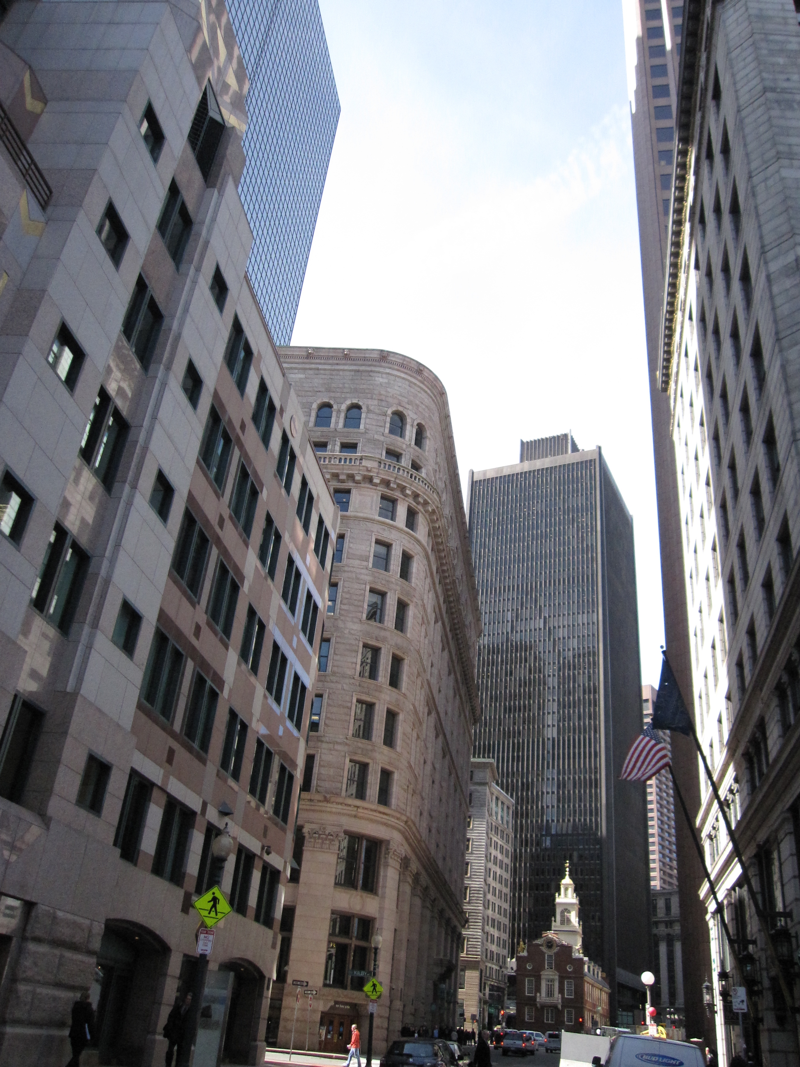 Boston, Massachusetts, March 2010